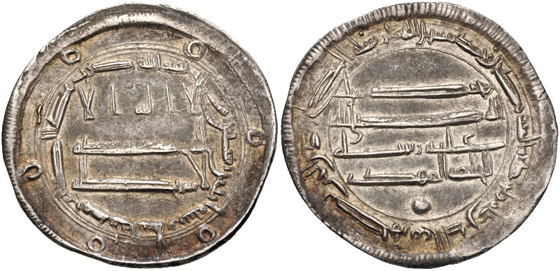 ISLAMIC, 'Abbasid Caliphate. al-Mahdi. AH 158-169 / AD 775-785. AR Dirhem (25mm, 3.01 g, 6h). Medinat al-Salam (Baghdad) mint. Dated AH 162 (AD 778/9). Album 215.1. Good VF, toned.